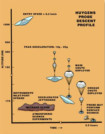 This picture illustrates the Huygens probe descent profile, beginning with the initial encounter with the Titan atmosphere and subsequent deceleration. As the probe slows, a small parachute is released which deploys the main probe parachute. Once the parachute is fully open the decelerator shield is jettisoned and the probe drifts toward Titan's surface. About 40 km above the surface the main parachute is jettisoned and a smaller drogue chute carries the probe the remaining distance. Science data are continuously being transmitted by the probe to the orbiter during the probe's 2.5-hour descent to the surface, for later relay to Earth. If the probe survives its impact of about 15 mph, a small science package may transmit up to 30 minutes of post-impact science data to the orbiter.